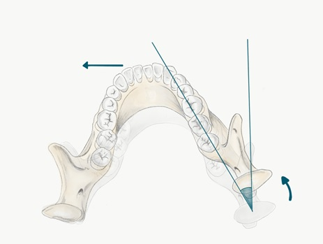 Bennet Angle - The angle formed between the sagittal plane and the condyles, as the mandible moves laterally. (Institute of Dentistry Aberdeen University)